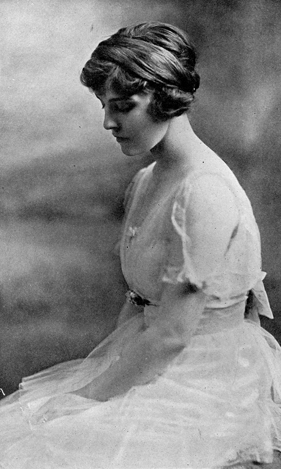 Photograph of Madge Kennedy prior to 1918.